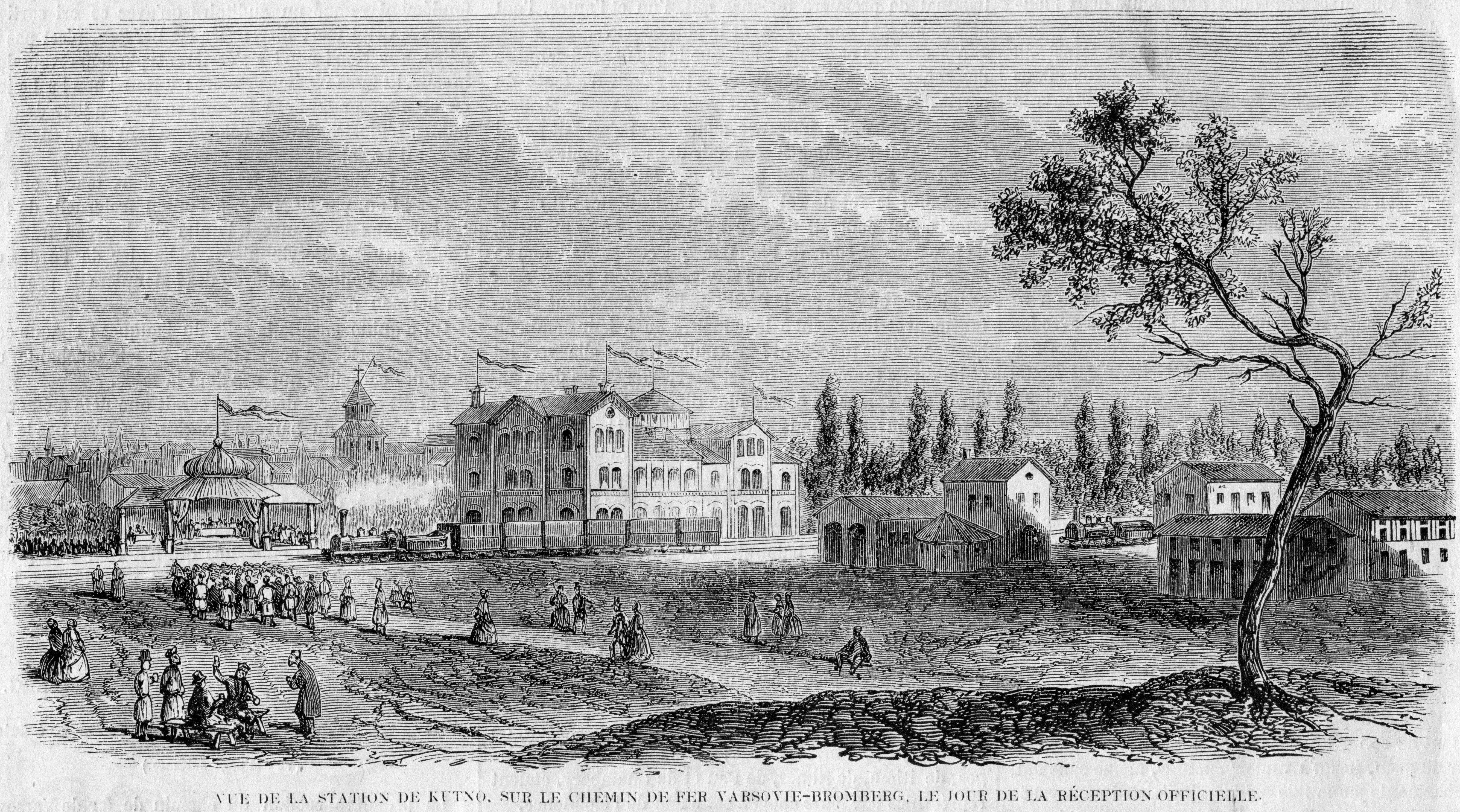 L'Illustration 1862 gravure Vue de la station de Kutno le jour de la réception officielle